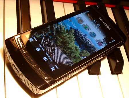 Samsung i8910HD with personal start screen